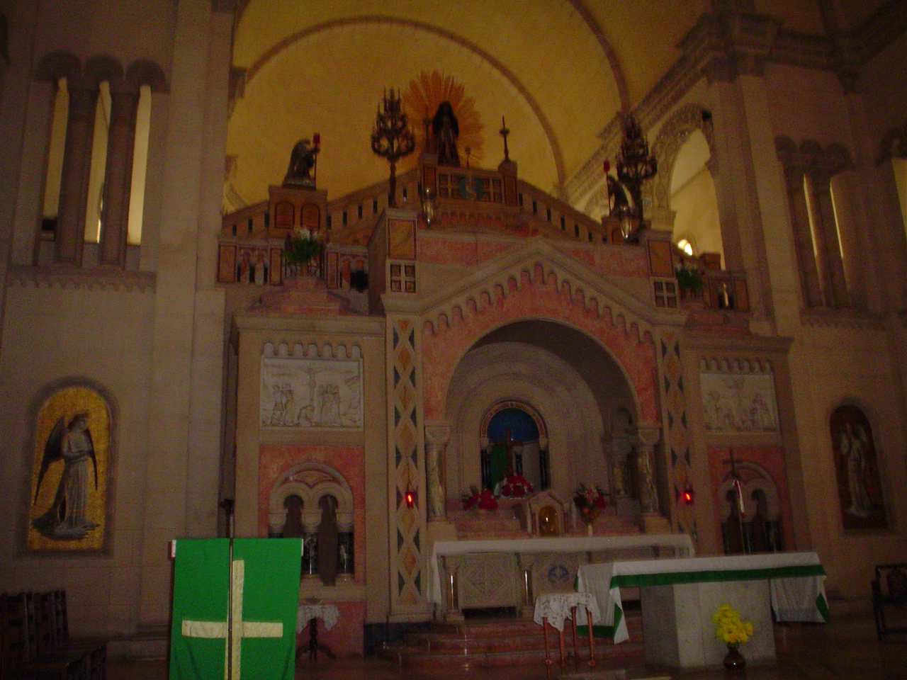 altar of Iglesia de Jesús de Miramar in Havana